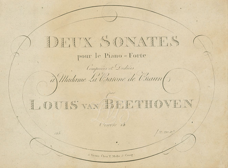 it is the cover of the sonata